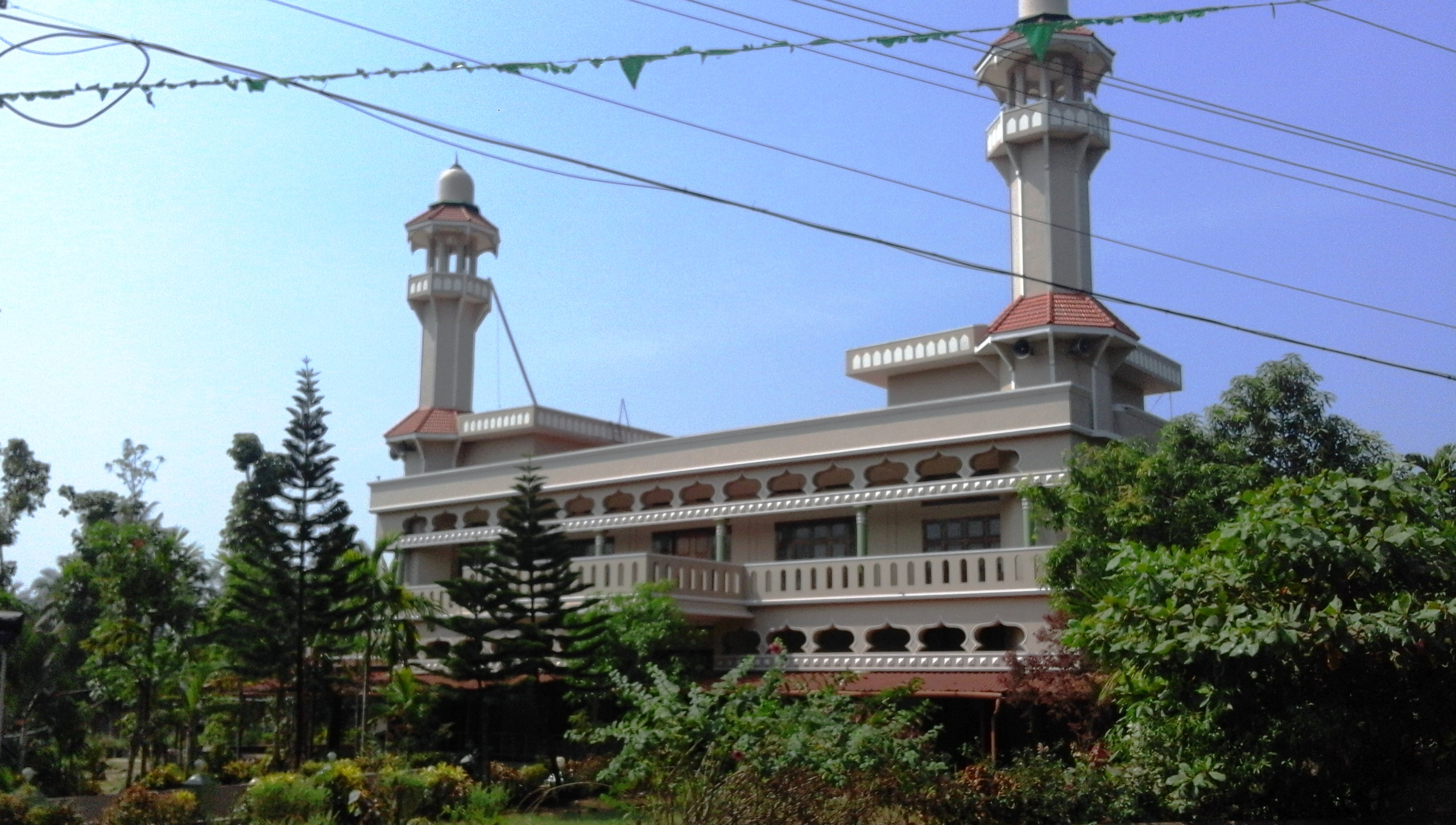 Saidhar Mosque, Thalassery, India.